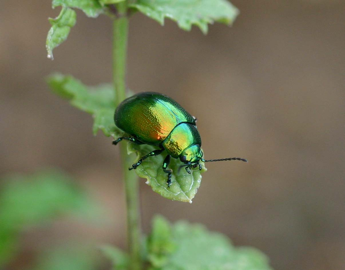 Macro picture of an insect (Cryptocephalus) Photo is not Cryptocephalinae. It is probably a Chrysolina (Chrysomelinae)